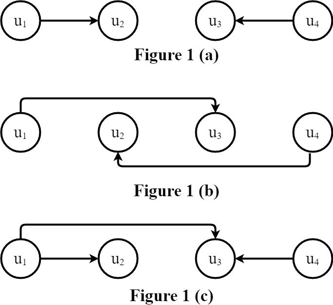 This diagram shows how forward and backward search frontier go through each other in the search space.